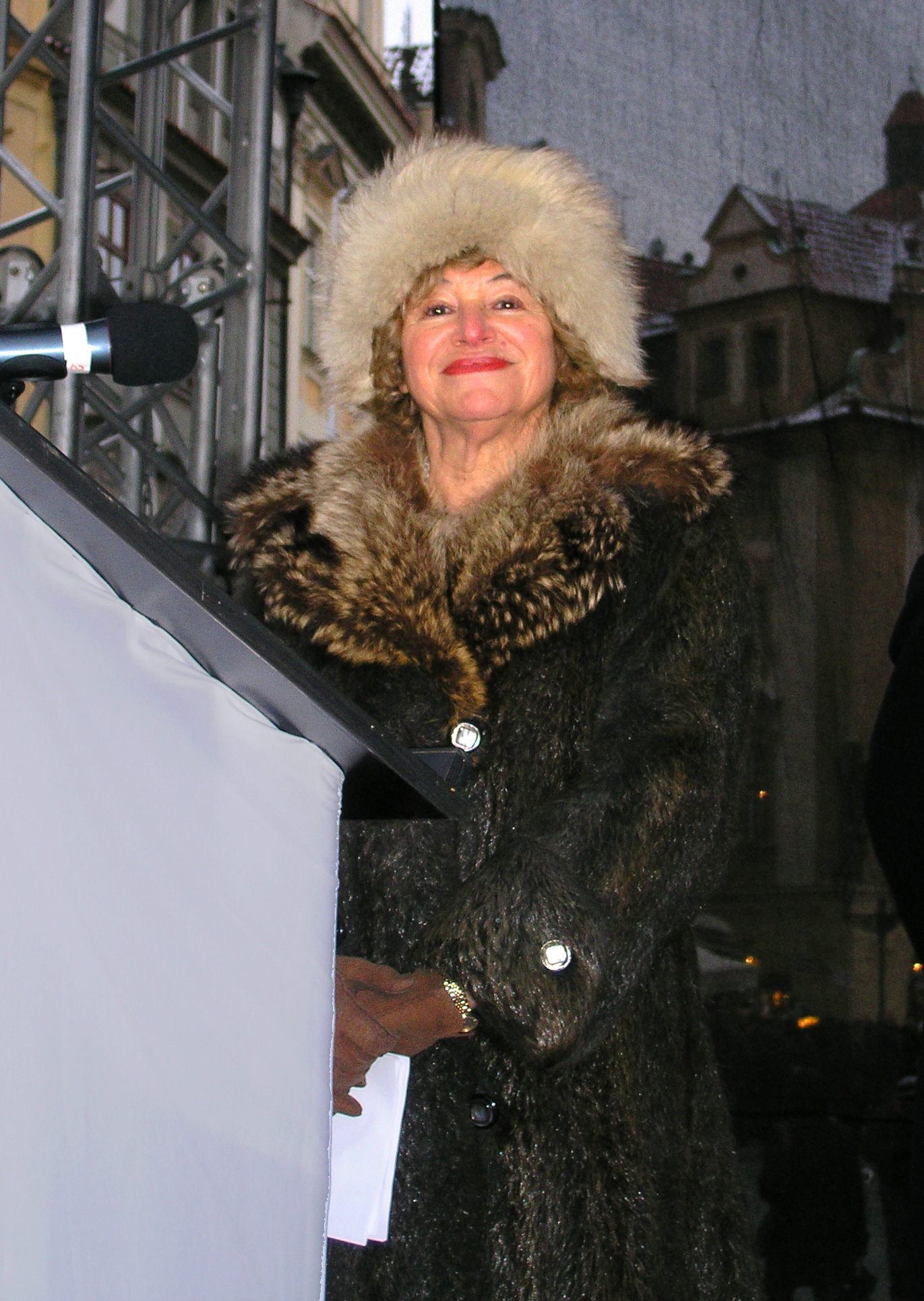 Catherine Cesarsky, President of the International Astronomical Union. Launch of the International Year of Astronomy in the European Union, Czech Republic.